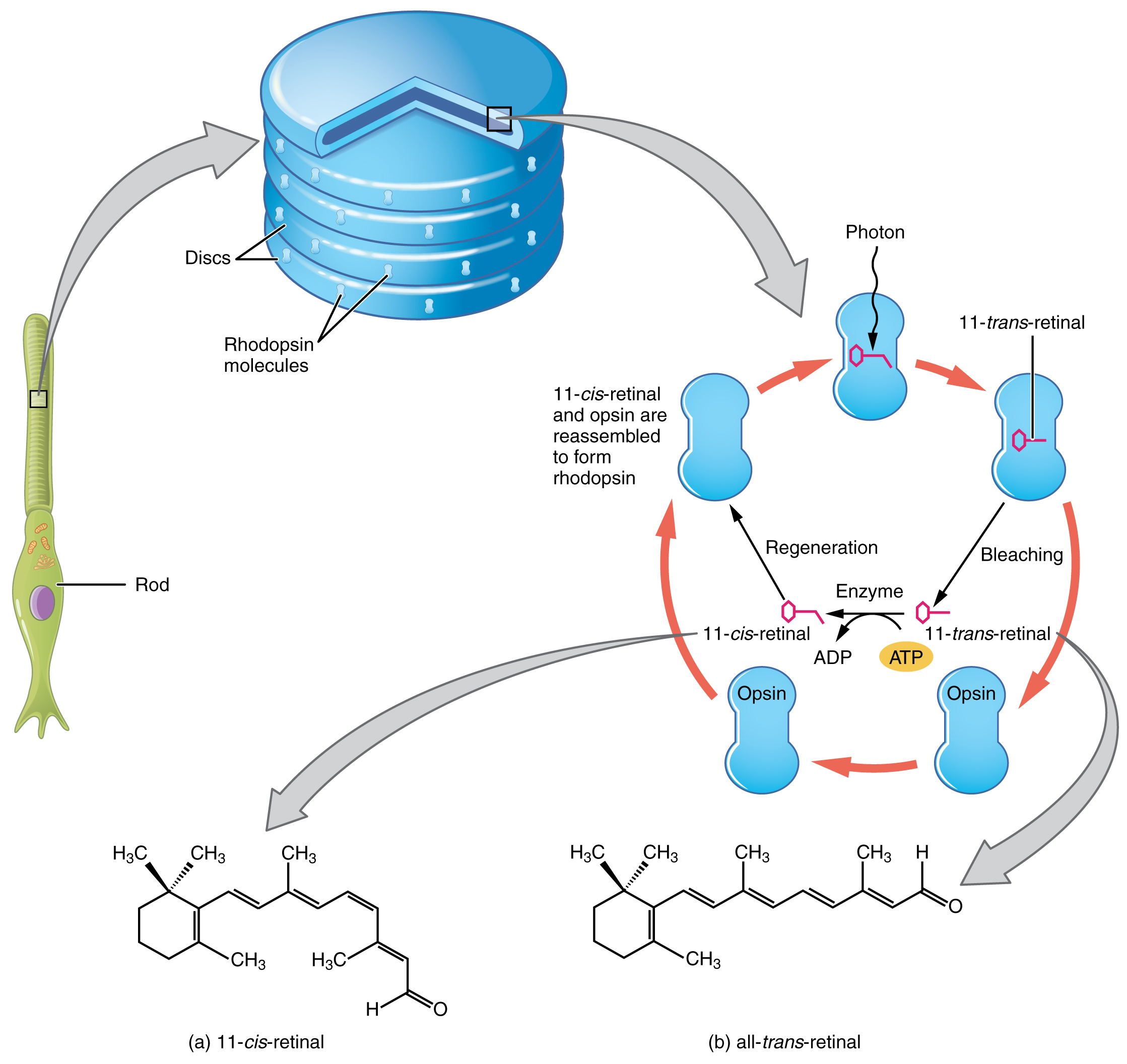 Illustration from Anatomy & Physiology, Connexions Web site. Jun 19, 2013.